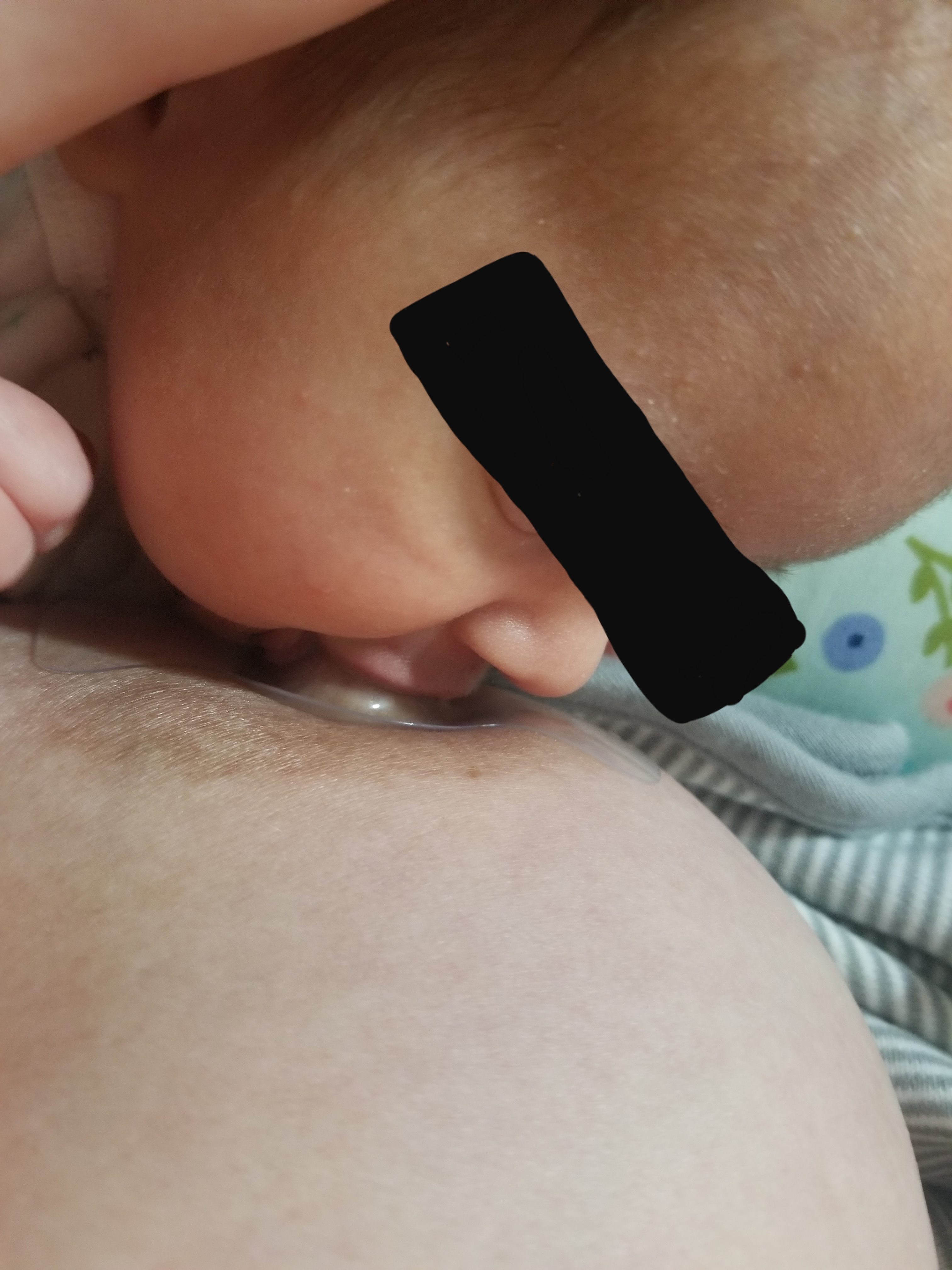 Baby latched into shield